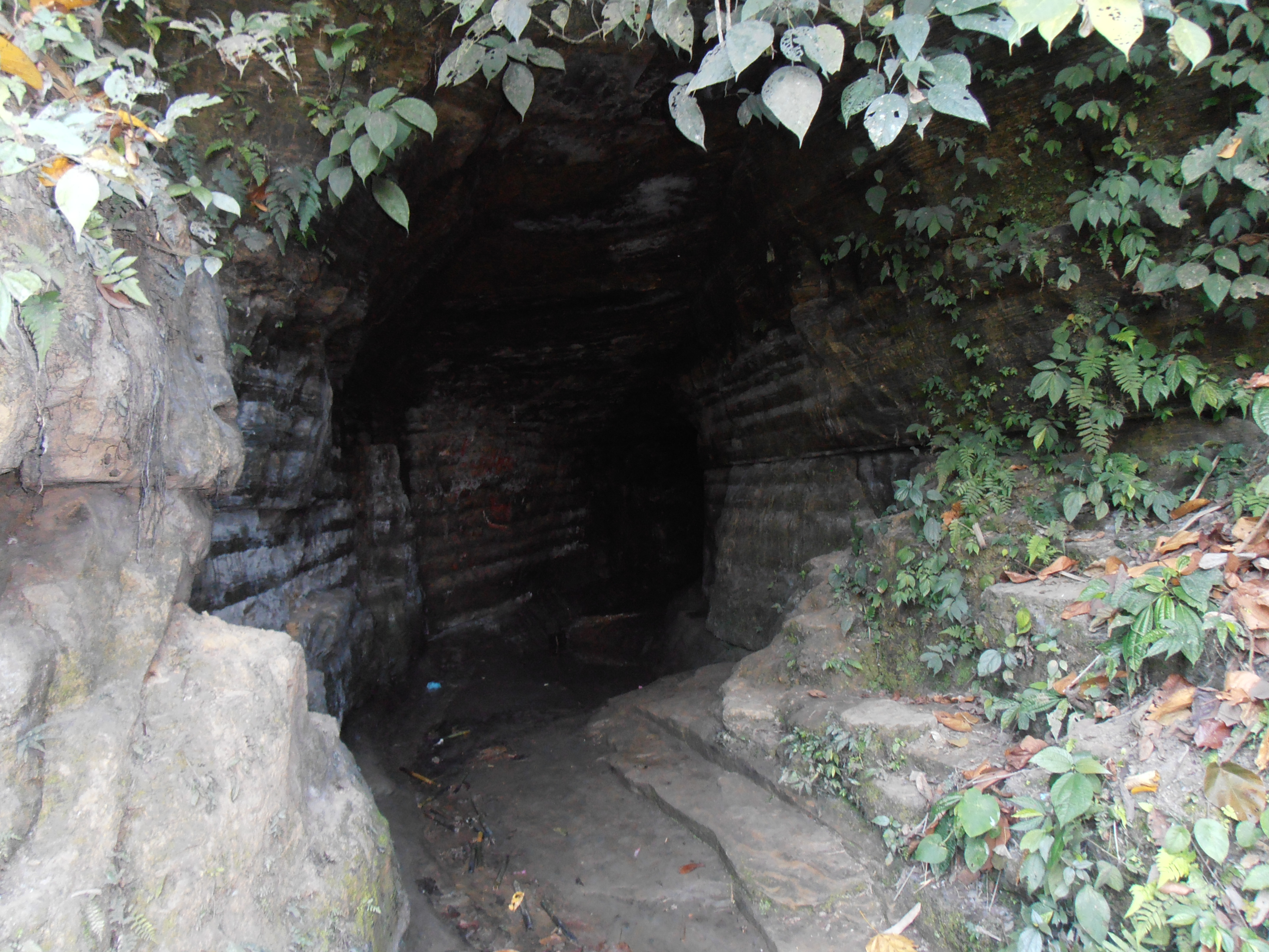 বাংলাদেশের খাগড়াছড়ি জেলার মূল শহর হতে ৭ কিলোমিটার পশ্চিমে মাটিরাঙ্গা উপজেলার আলুটিলা পযর্টন কেন্দ্রে রয়েছে একটি রহস্যময় গুহা। স্থানীয়রা একে বলে মাতাই হাকড় বা দেবতার গুহা। এটি খাগড়াছড়ির একটি নামকরা পর্যটন কেন্দ্র।